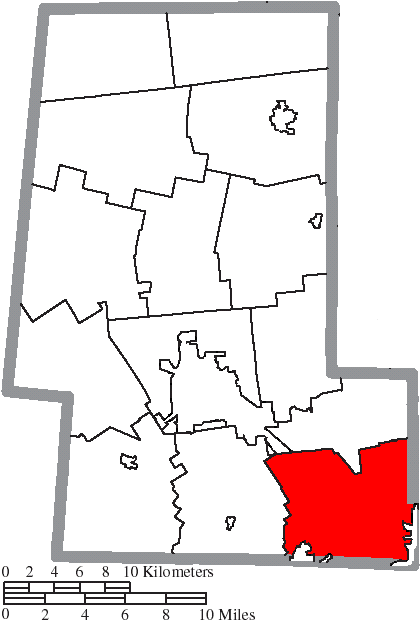 Map of the municipal and township boundaries of Union County, Ohio, United States, as of the 2000 census, with the location of Jerome Township highlighted. Township borders are shown only in unincorporated areas in order to differentiate incorporated and unincorporated areas more clearly.